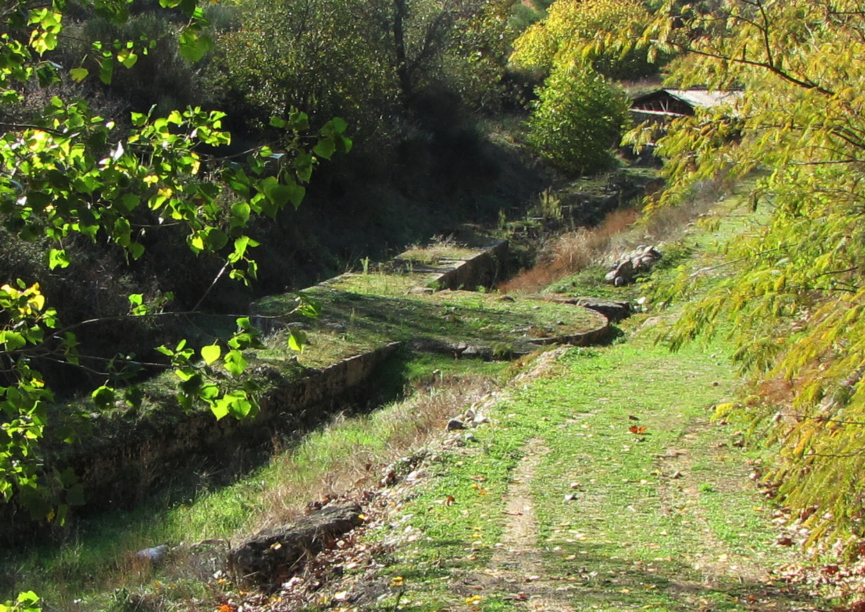 Amphipolis, the northern wall